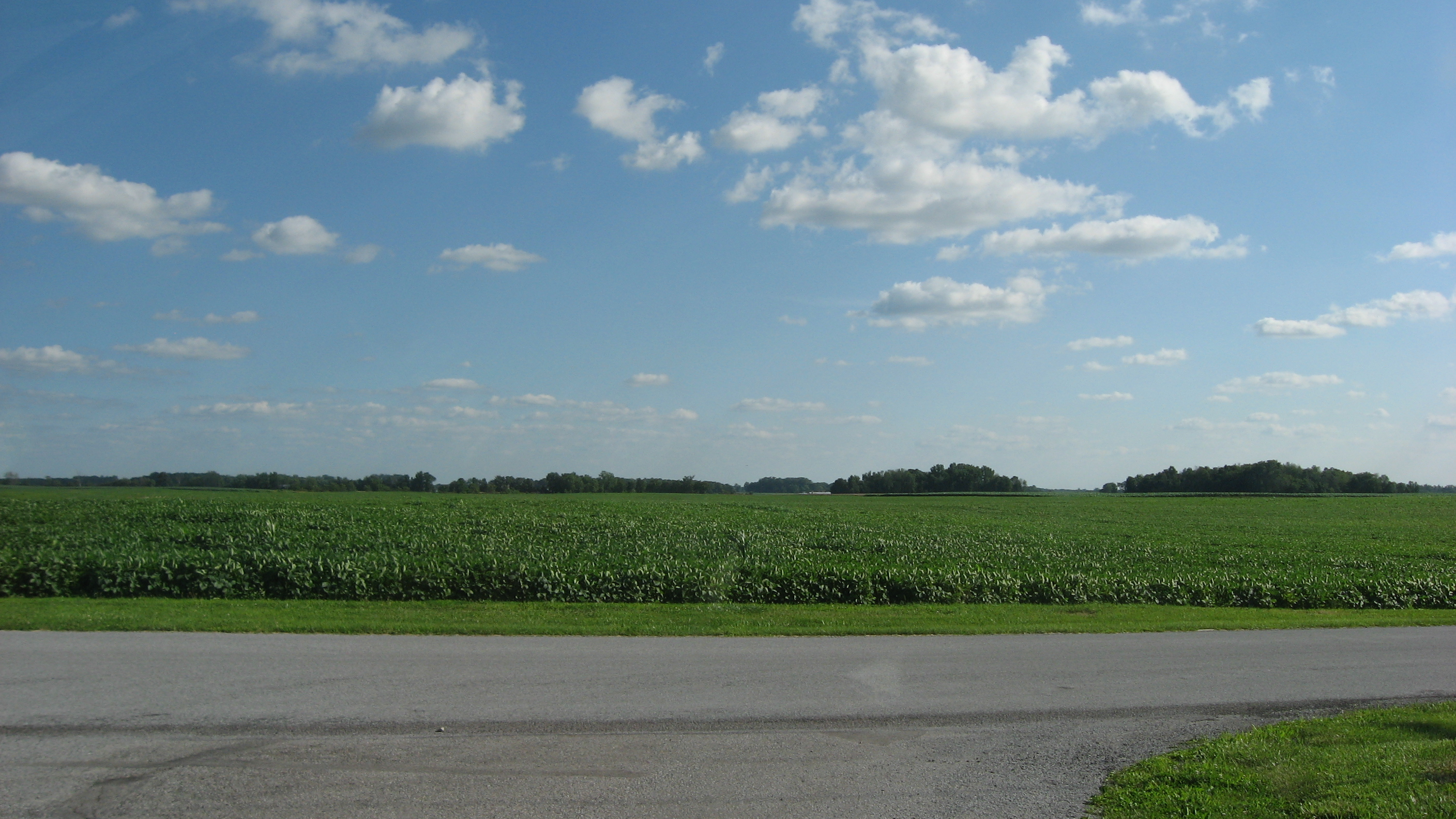 Fields in central Blanchard Township, Putnam County, Ohio, United States. Picture taken looking southward from the intersection of Roads 5F and I.